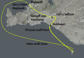 In 1912 the team ÍBV traveled this way to the first Icelandic football Championship, held in Reykjavík. Derivative work